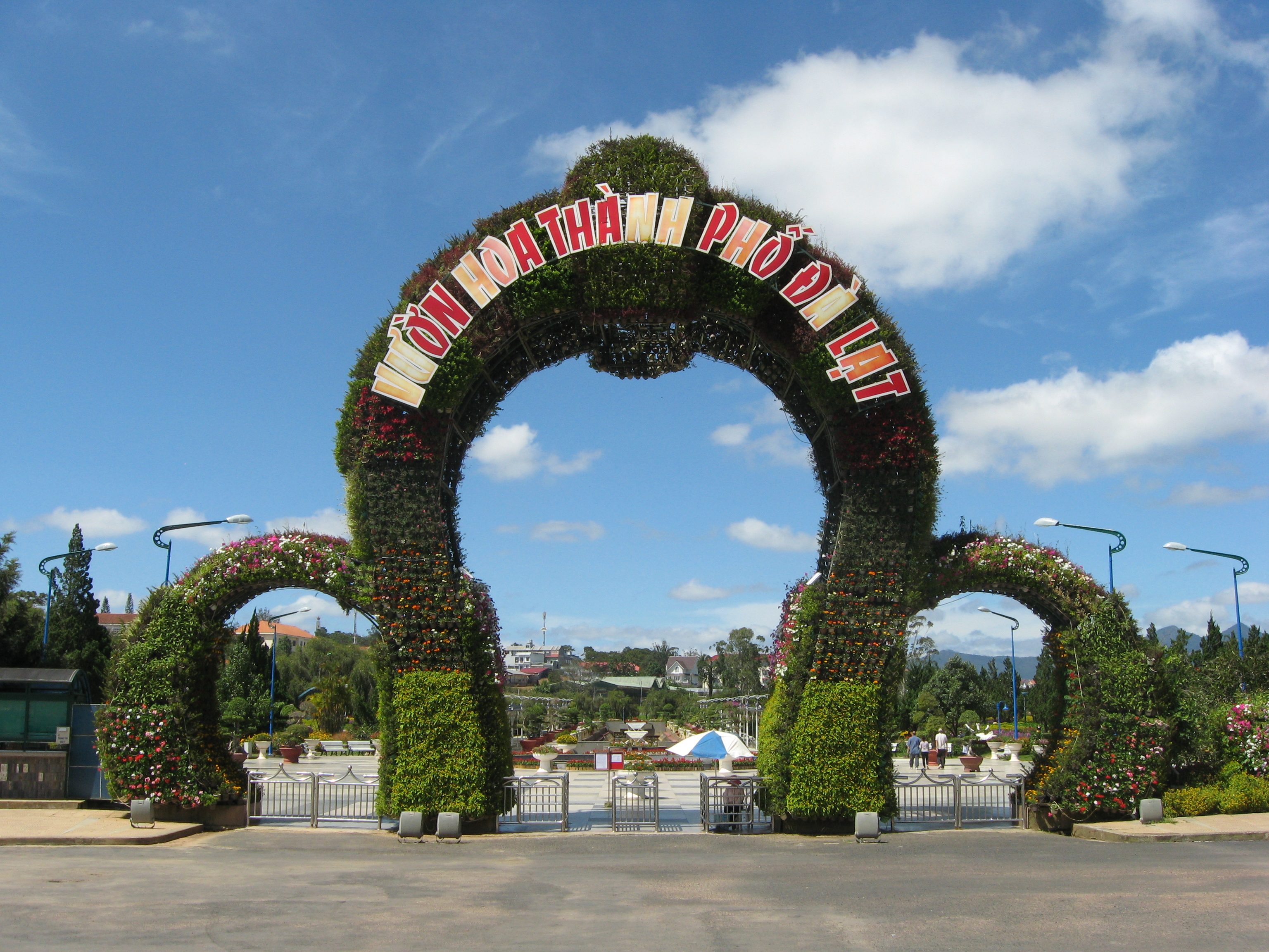 Da Lat Flower Park